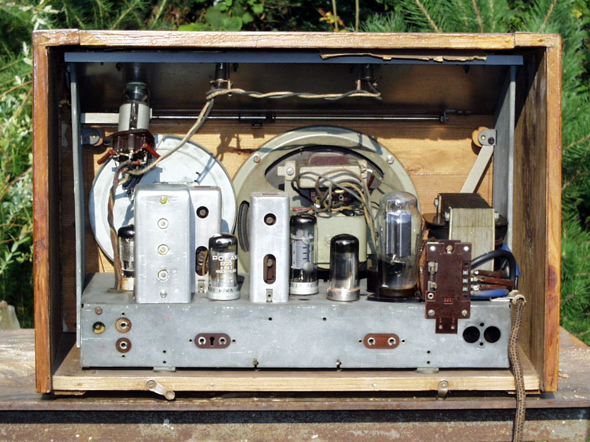 Radio "AGA RSZ-50" manufacturer: "DIORA" (Poland), 1947-1950